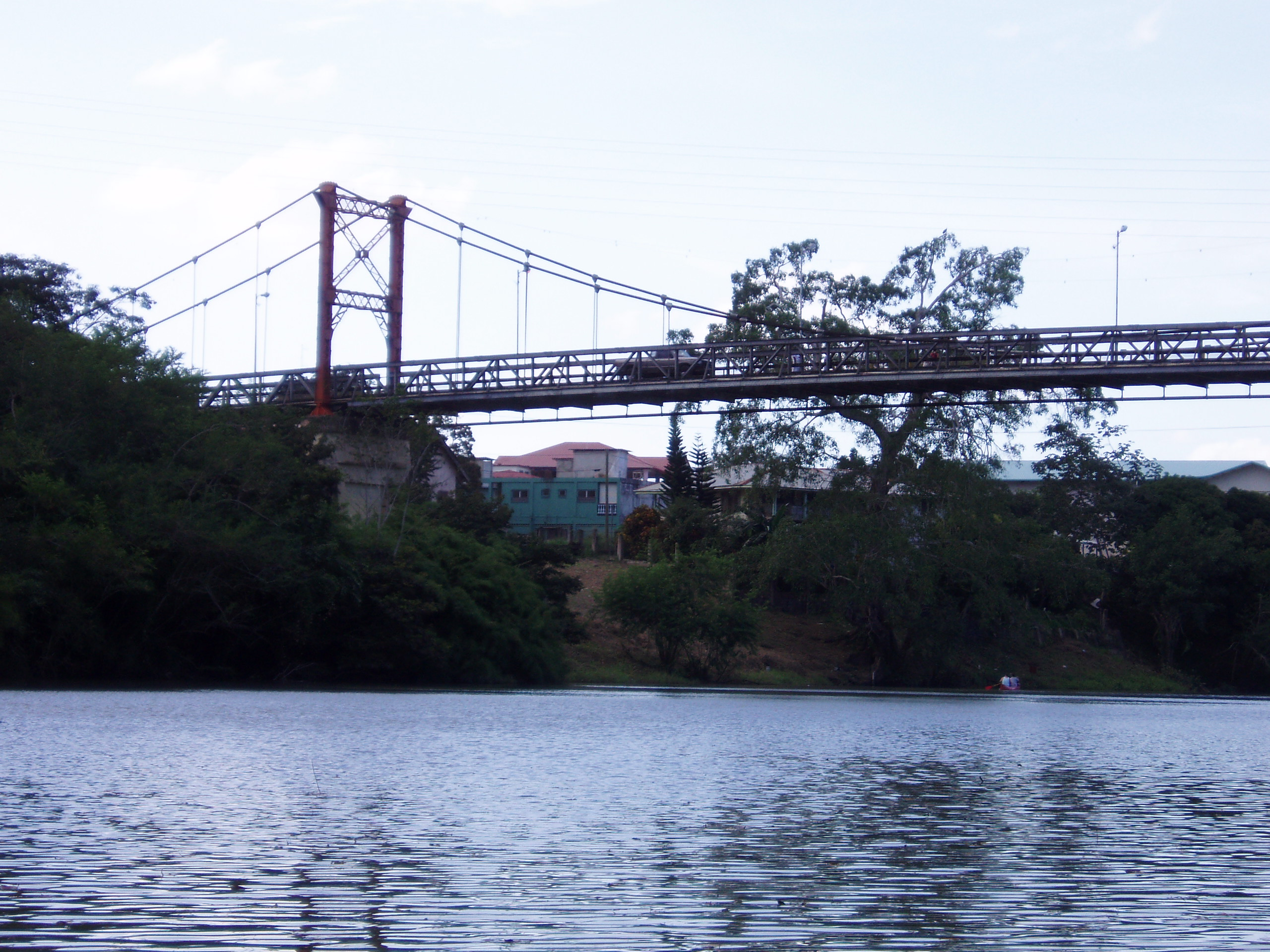 Hawksworth Bridge over the Macal River, near San Ignacio, Belize